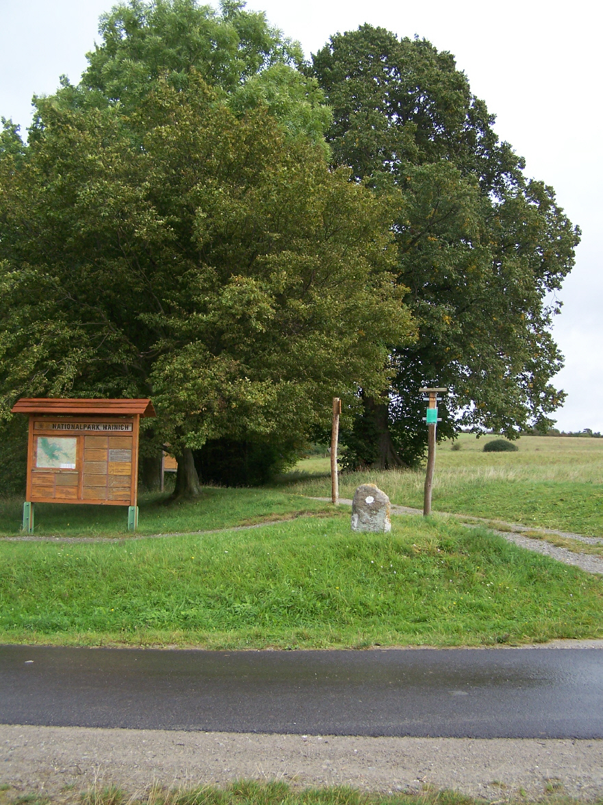 The Malstein was a symbol of a old regional court of justice with Mallinde.